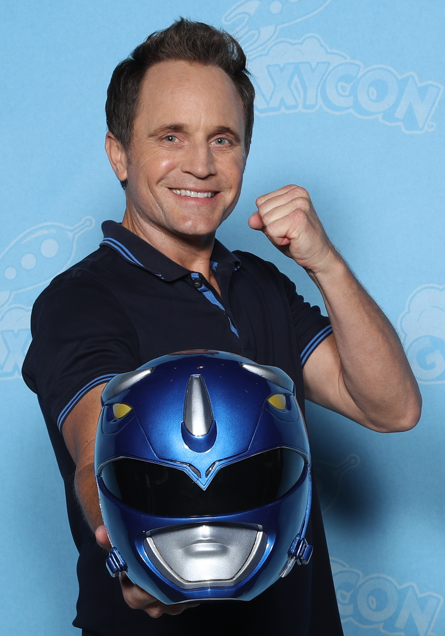 David Yost at GalaxyCon Raleigh in 2019